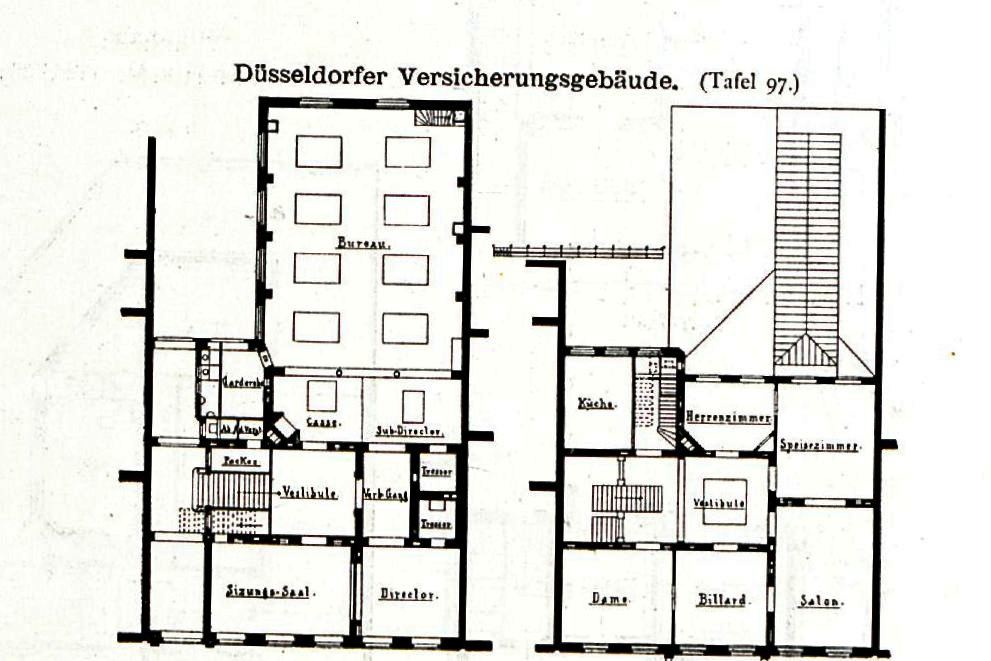 Düsseldorfer_Allgemeine_Versicherungsgesellschaft_für_See-,_Fluss-_und_Landtransport,_Breitestrasse_8,_Düsseldorf,_Architekten_Jakobs_&_Wehling,_Düsseldorf,_Tafel_97,_Kick_Jahrgang_II.jpg